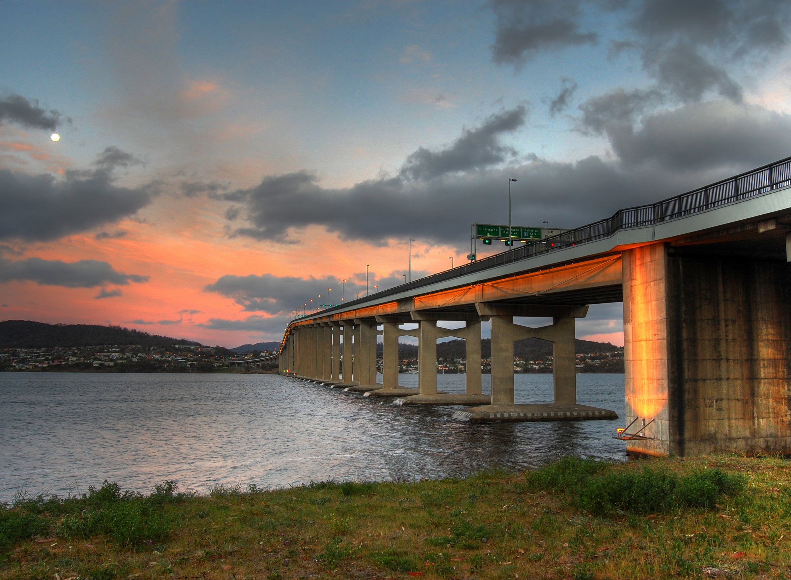 The Tasman Bridge crossing the Derwent River as seen from the North West of the bridge at dusk.